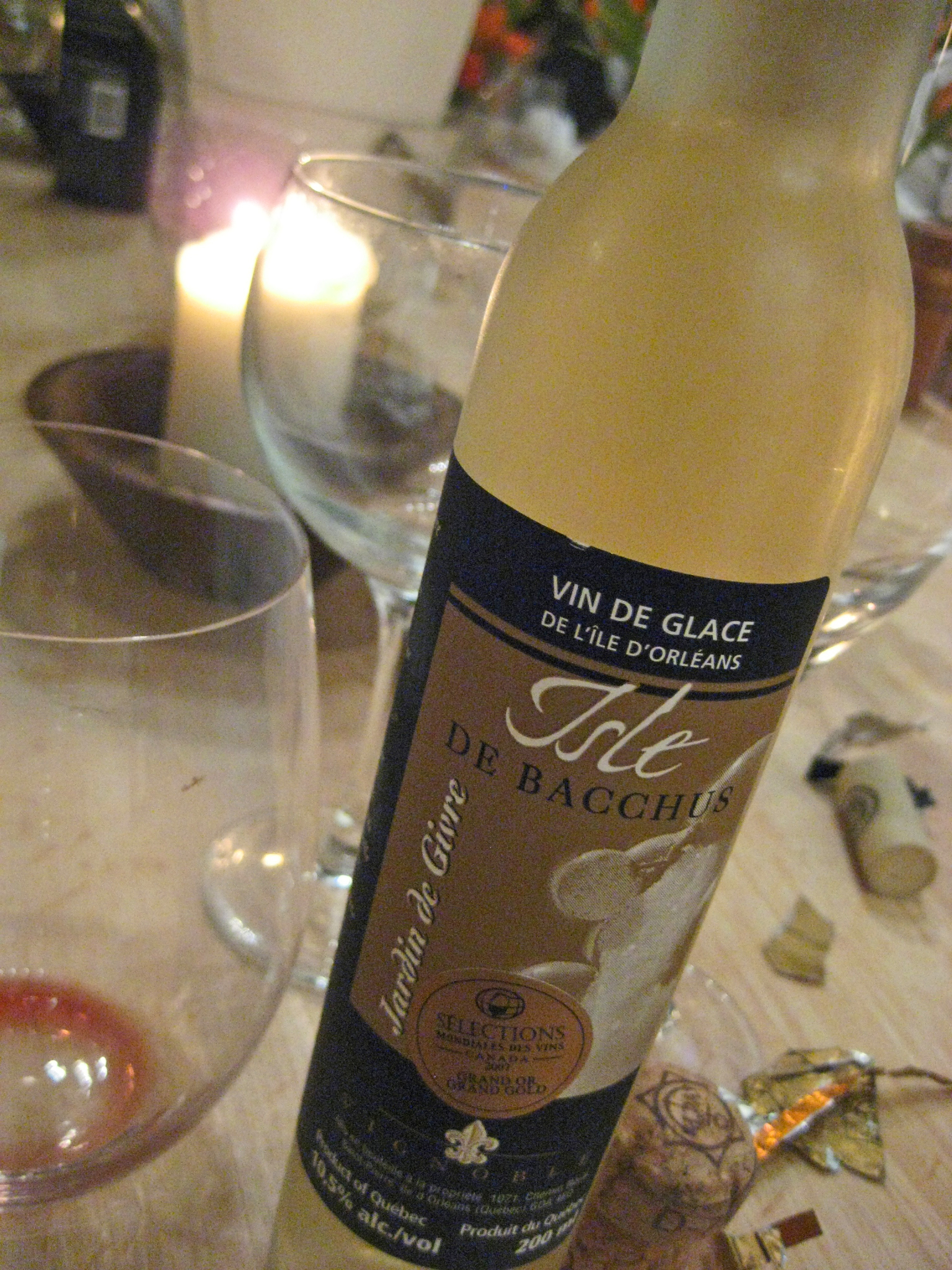 Ice wine made from the Bacchus grape in the Quebec wine region of Canada.